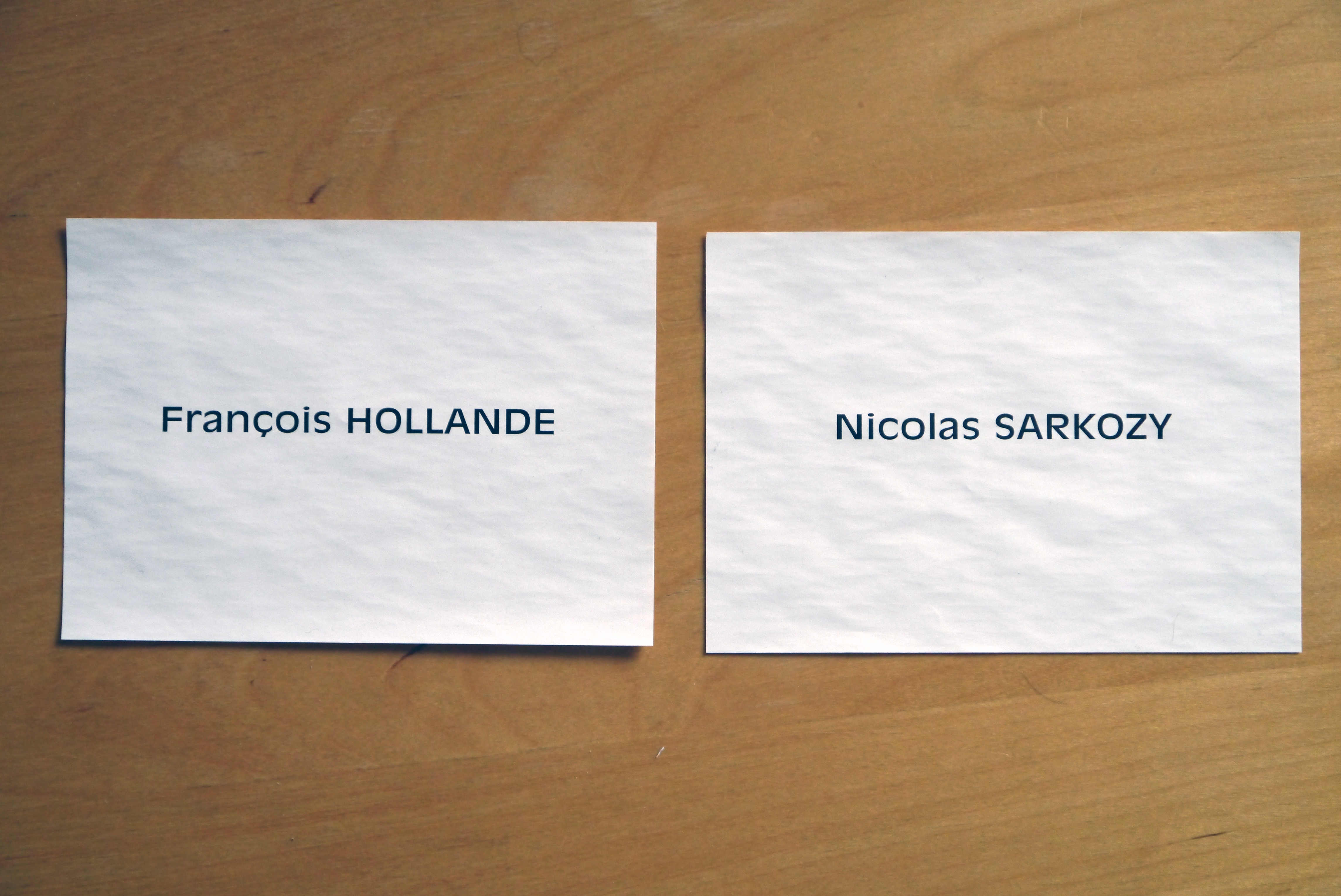 French presidential election 2012 second turn ballots